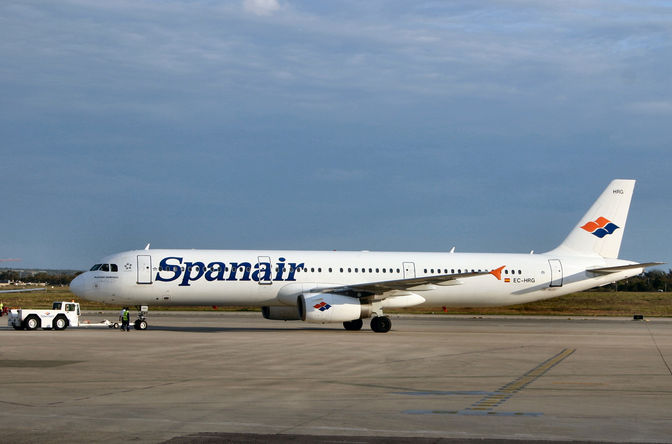 Spanair Airbus 321-231 EC-HRG Alicante - May 2004